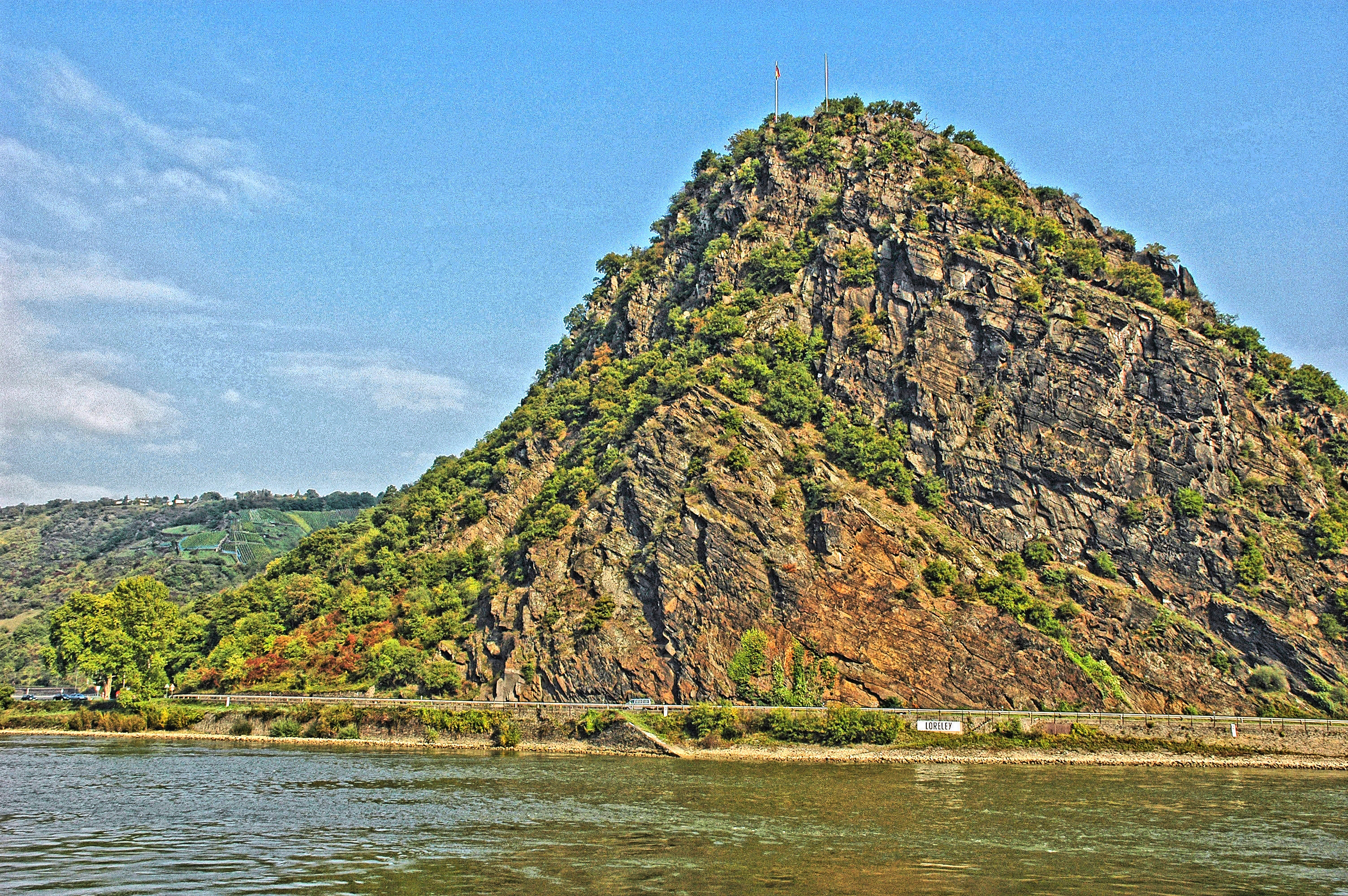 Loreley Rock at River Rhine